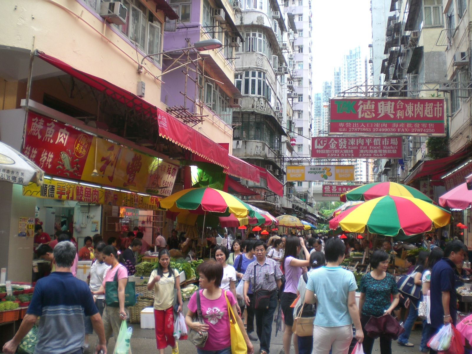 zh-yue:旺角街市